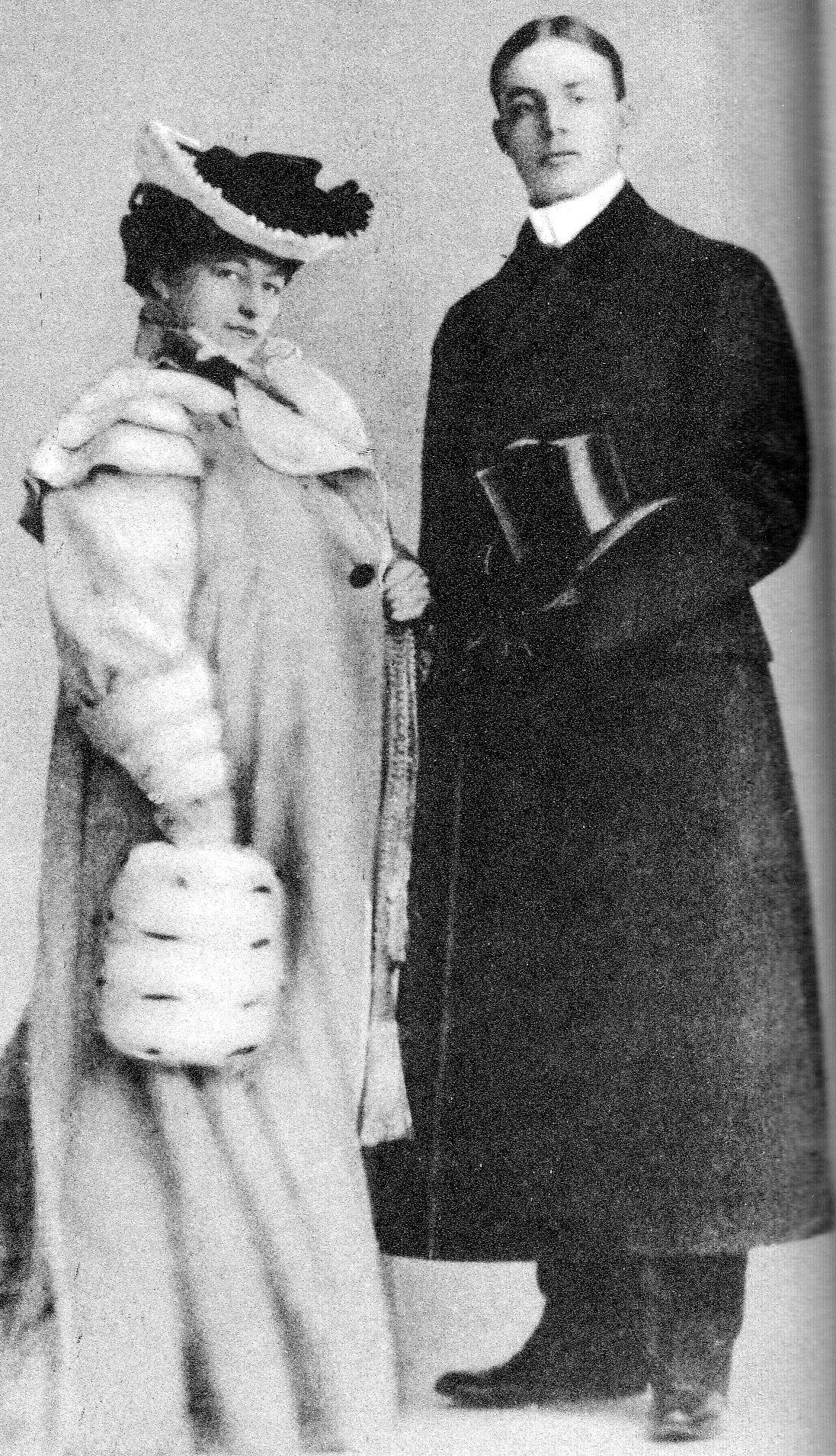 Frank Buck and Amy Leslie ca 1901 This image is from Frank Buck's autobiography All In A Lifetime (1941), which is now public domain. The copyright was never renewed because the publisher, Robert M. McBride, declared bankruptcy in 1948, and the book went out of print. Source of book: personal collection